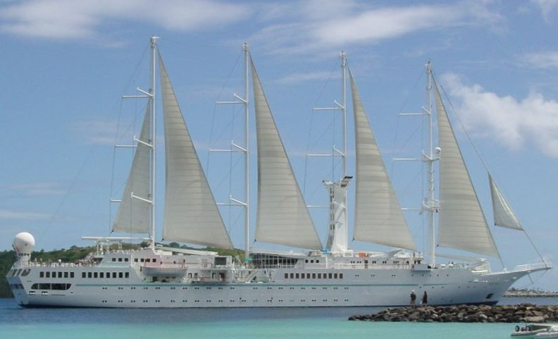 Wind Song at Borabora